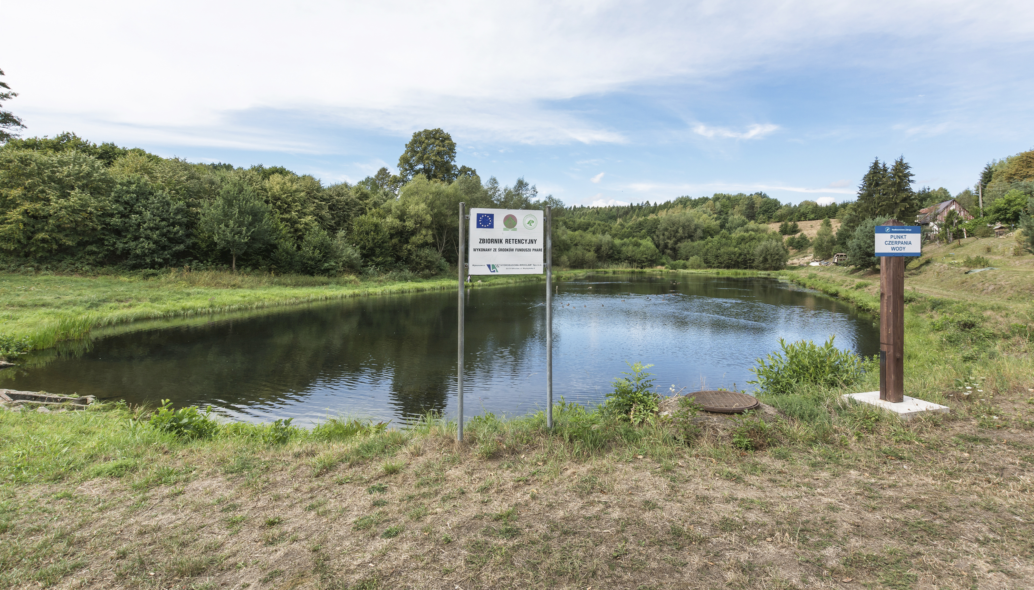 Reservoir in Chocieszów